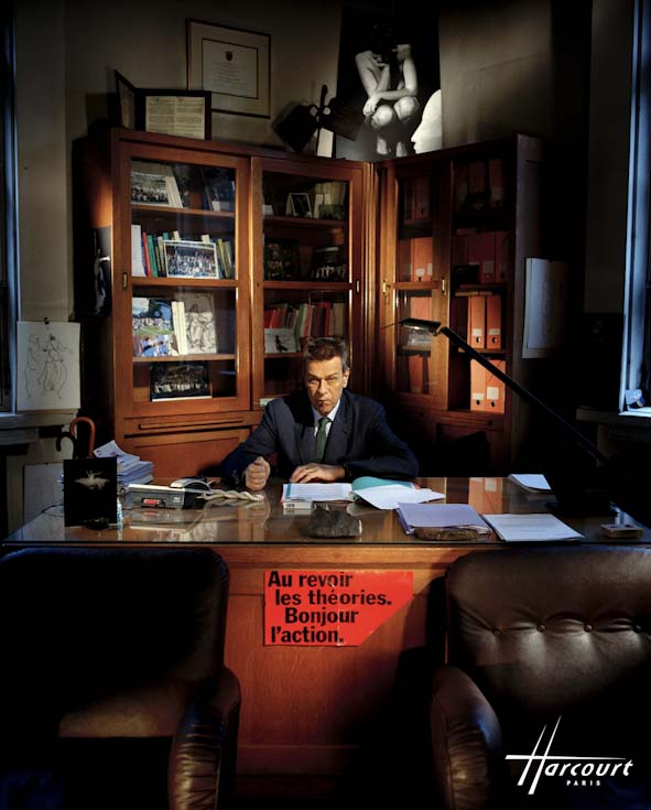 Pierre Gilles De Gennes photographed by Studio Harcourt Paris